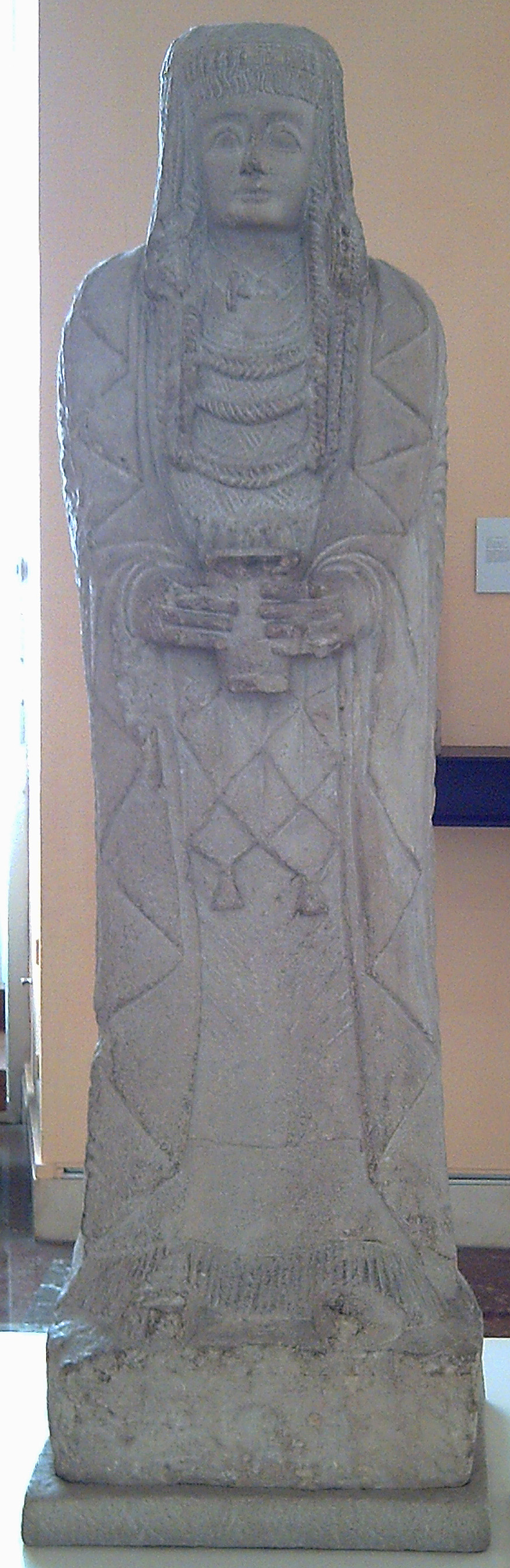 Iberian sculpture.